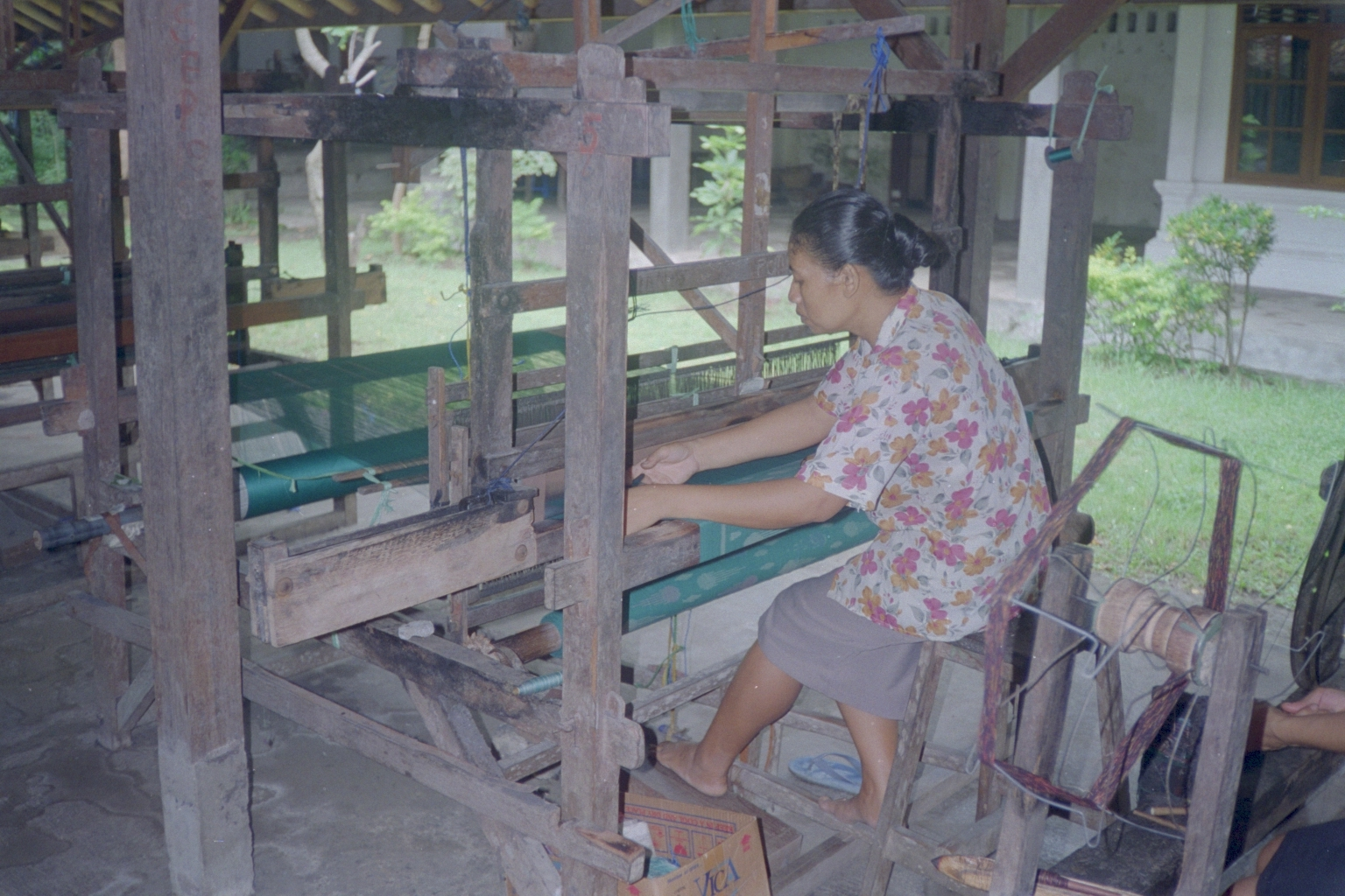 Weaving in Bali.